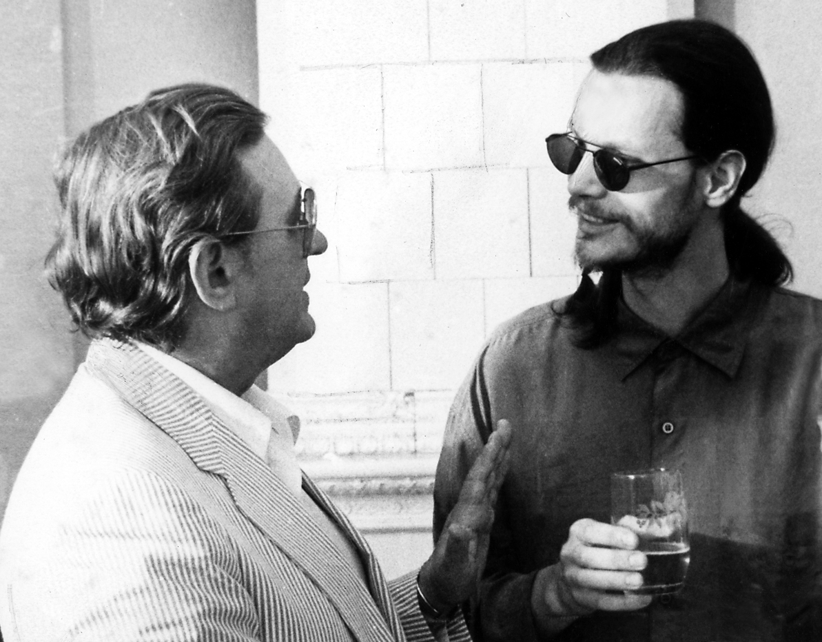 Ihor Podolchak and Roman Viktyuk at the presentation party of Masoch Fund.